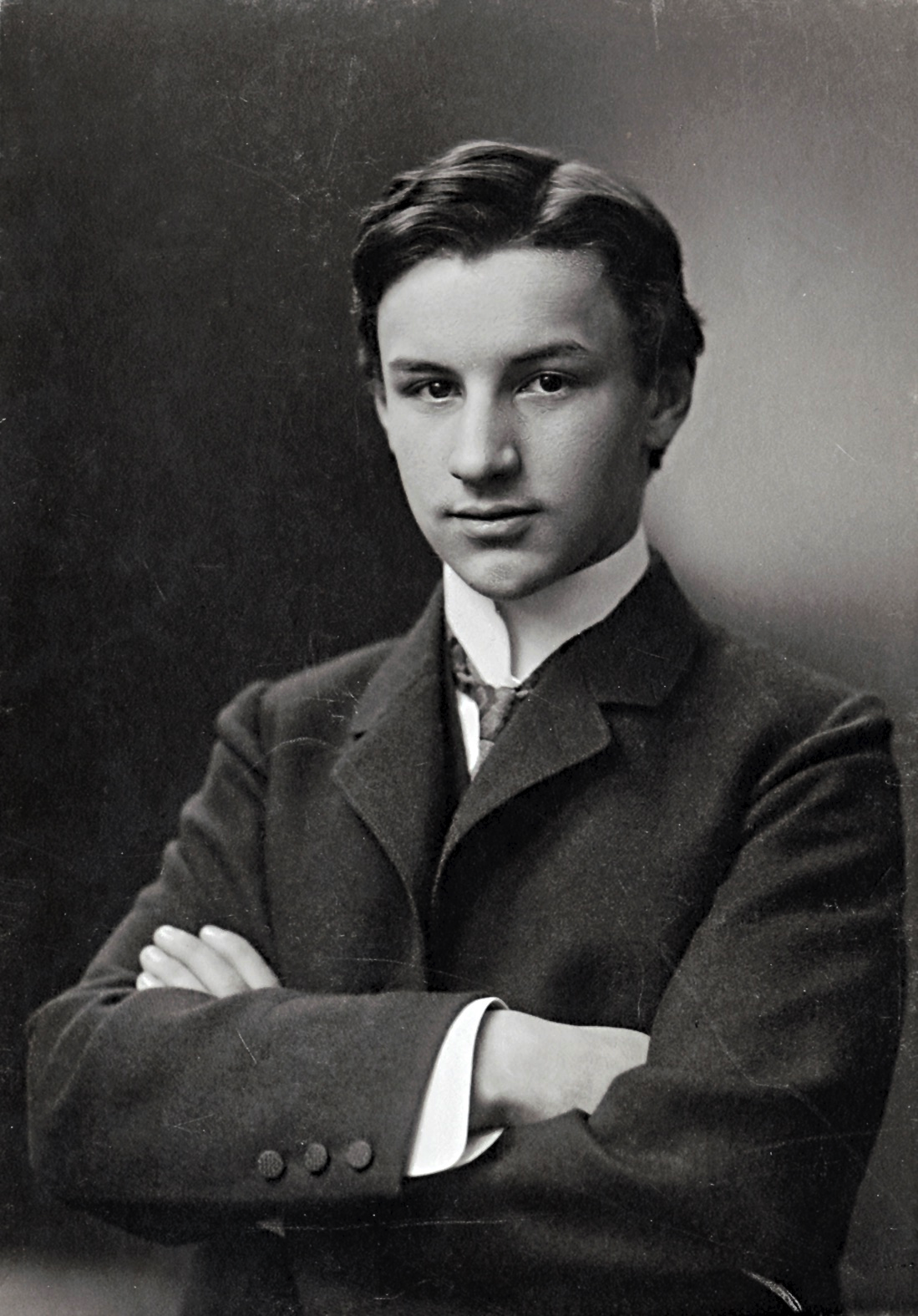 The geologist and cinematographer Arnold Heinrich Fanck was born on March 6, 1889 in Frankenthal, Rhine Circle, Germany. He died September 28, 1974 in Freiburg im Breisgau, Baden-Württemberg, Germany.